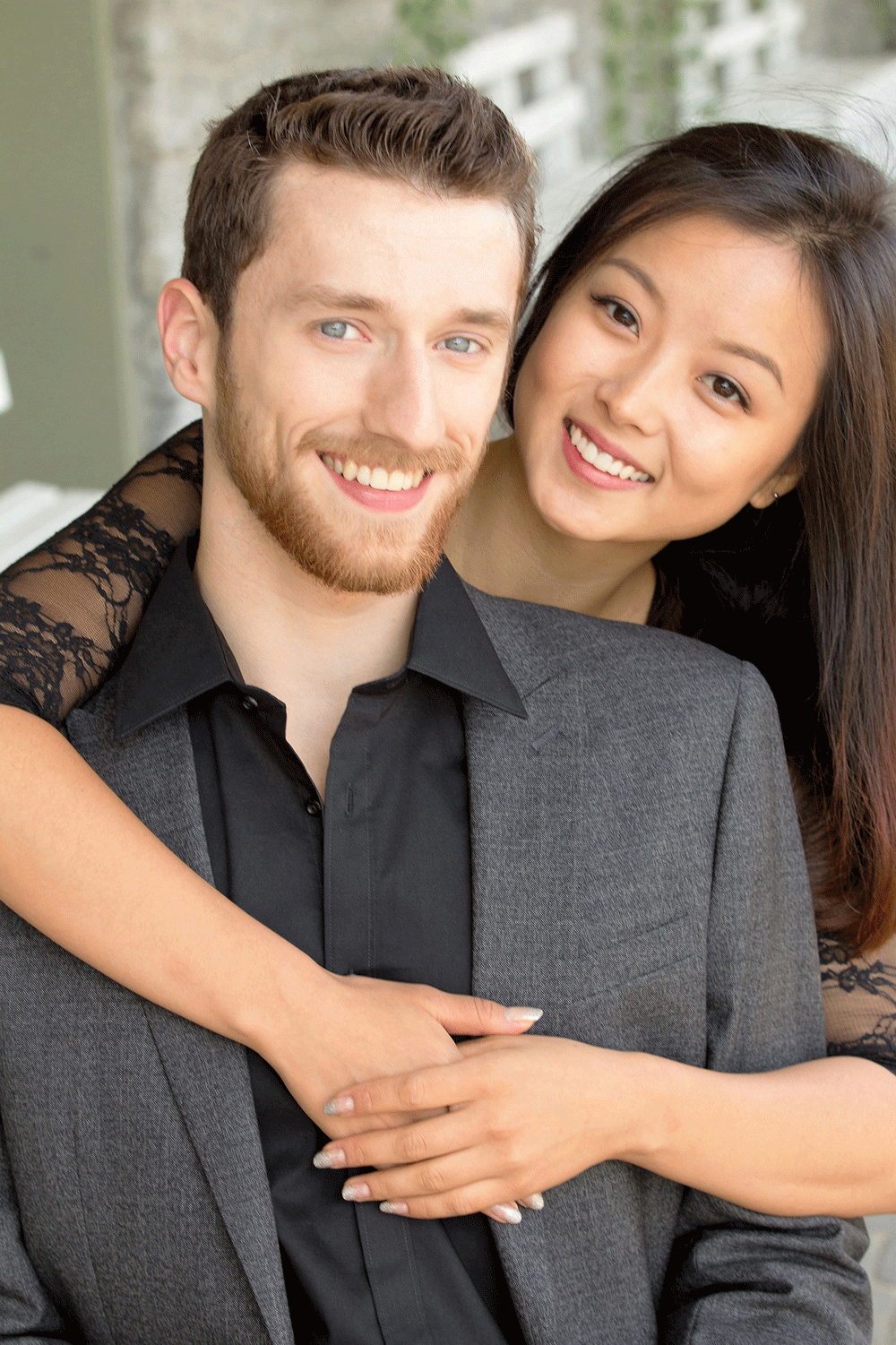 Alexander Gamelin and Yura Min Ice Dance Team (KR). Portrait photograph taken in Lake Placid, New York, USA following the ISU 2016 Lake Placid Ice Dance International Competition